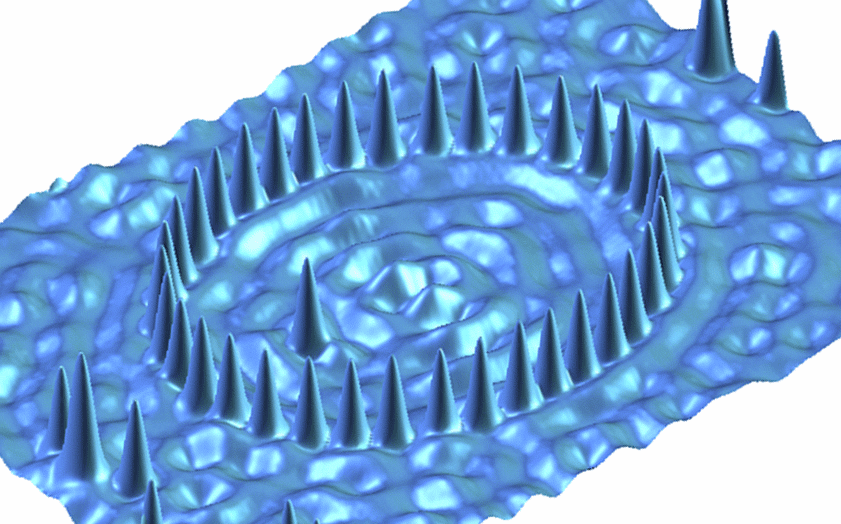 Image of an elliptical quantum corral built using the autonomous atom assembler; Co atoms were deposited at sub-monolayer coverage on a Cu(111) at 7K in UHV and subsequent STM measurements were performed at a 4.3 K sample temperature.